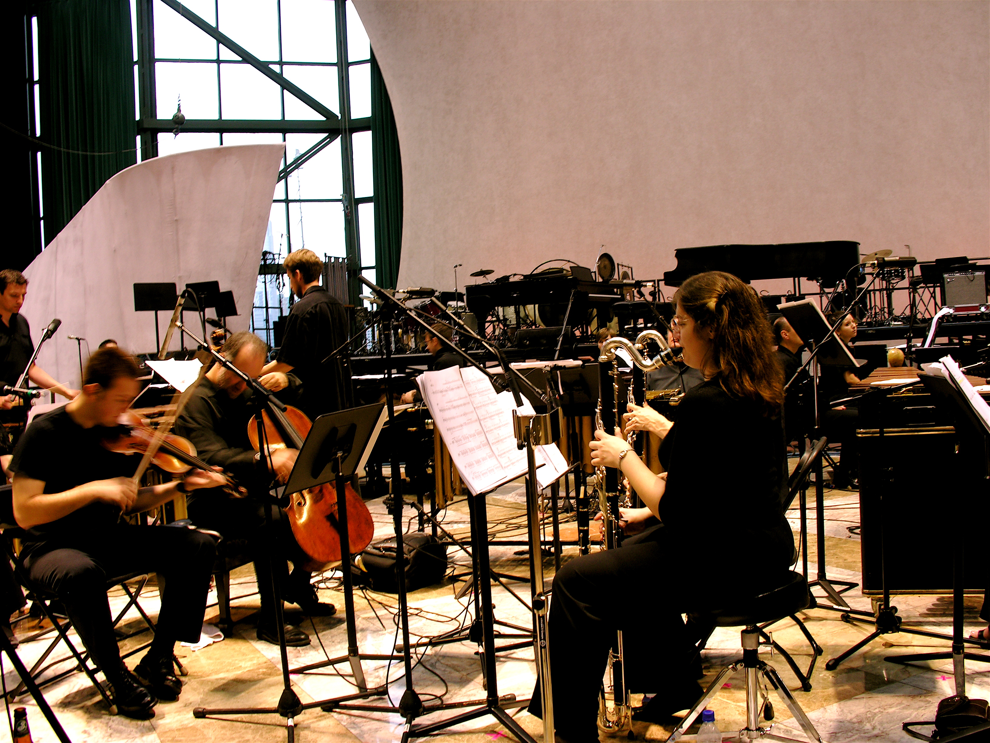 At the Bang on a Can Marathon, June 3, 2007, New York City, World Trade Center Winter Garden. Performed by The New Music Ensemble at Grand Valley State University